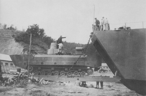 Japanese Type 3 Ka-Chi amphibious tank being loaded onto a landing ship